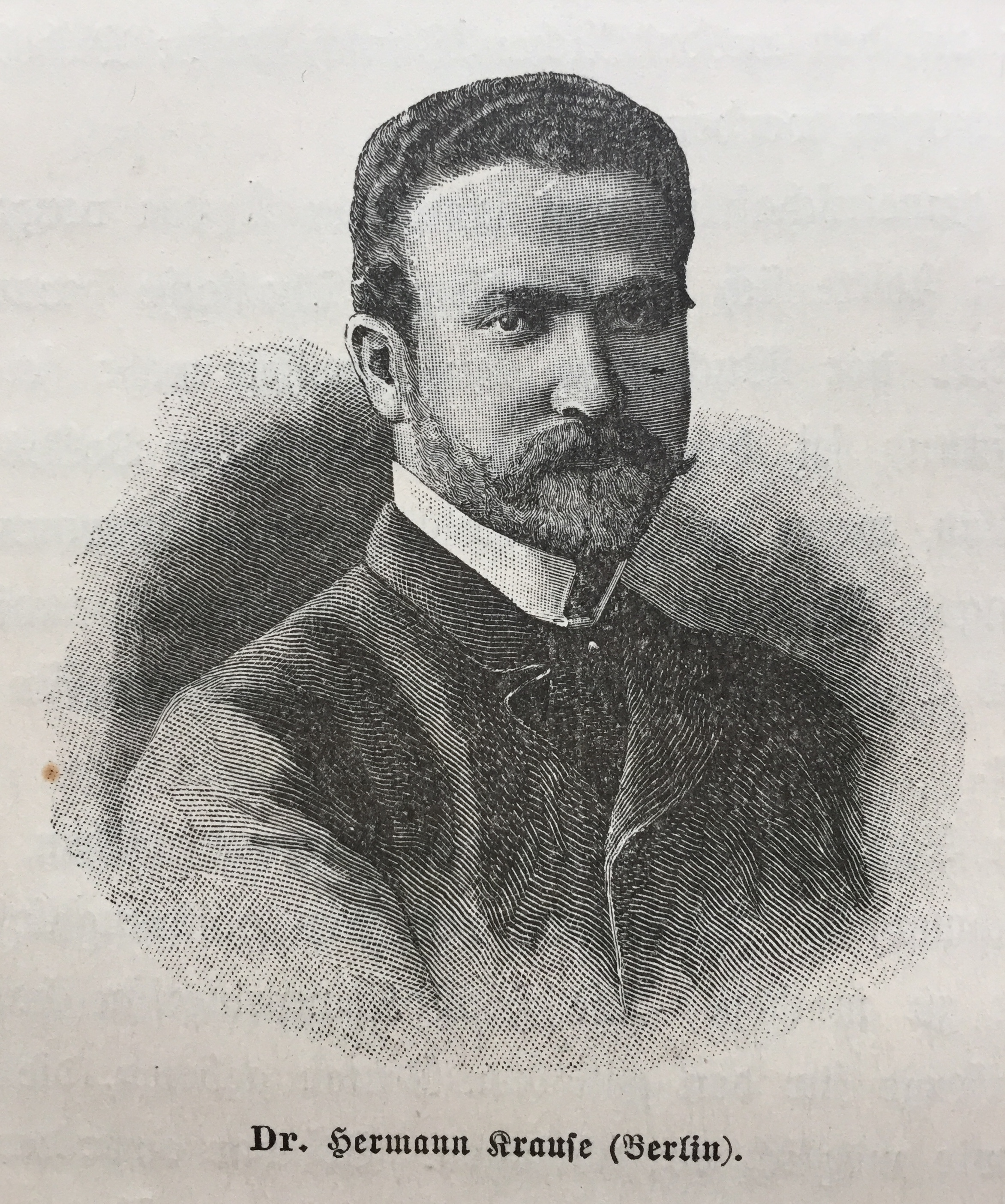 Illustration of Dr. Hermann Krause on page 383 in the book about the life of the German Kaiser Friedrich III. : Hermann Müller-Bohn: Unser Fritz, Deutscher Kaiser und König von Preußen. Ein Lebensbild. Verlag von Paul Kittel, Berlin 1889